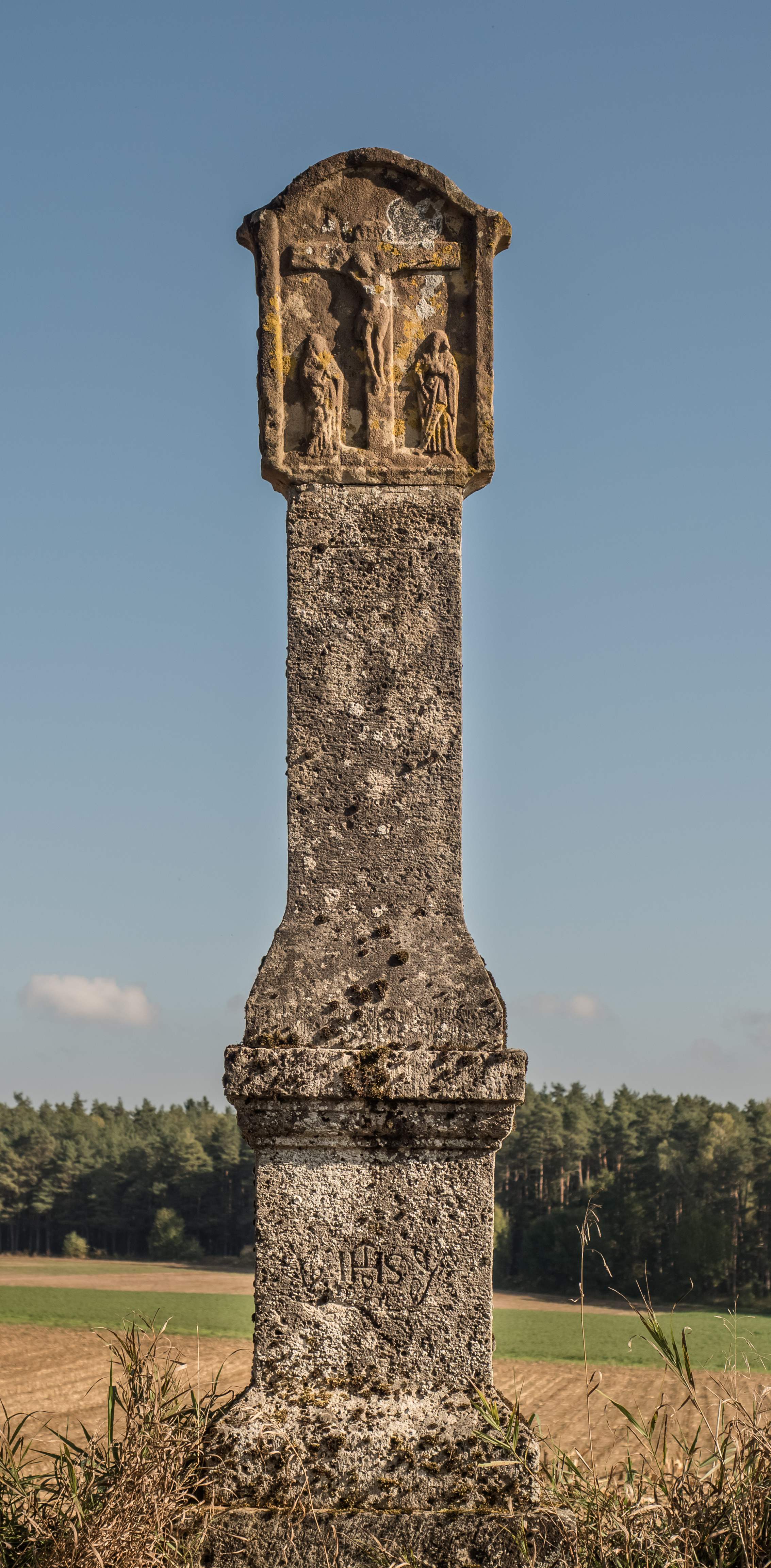 Wayside shrine in Eichenhüll, St 2191